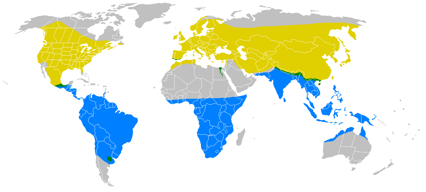 Hirundo rustica map. Yellow: breeding range Green: resident year-round Blue: non-breeding range